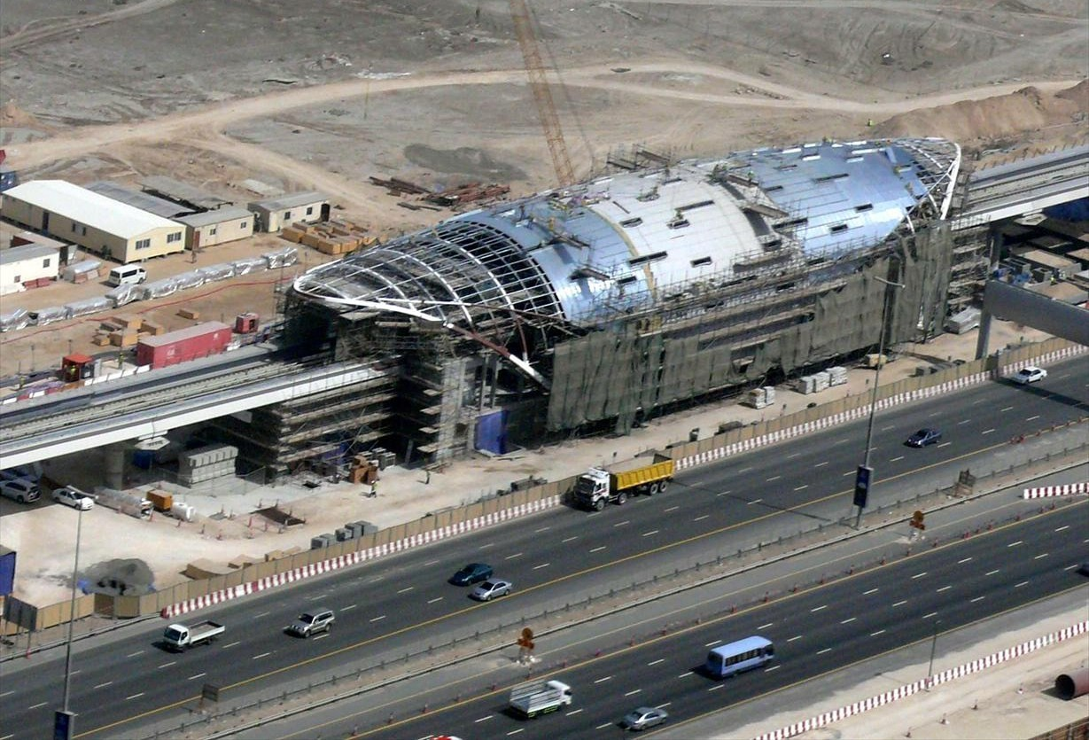 This is a photo showing the construction of the Jebel Ali Free Zone Station for Dubai Metro's Red Line near the Jebel Ali Free Zone in Dubai, United Arab Emirates on 8 May 2008. This photo was taken from a helicopter ride courtesy of Nakheel.